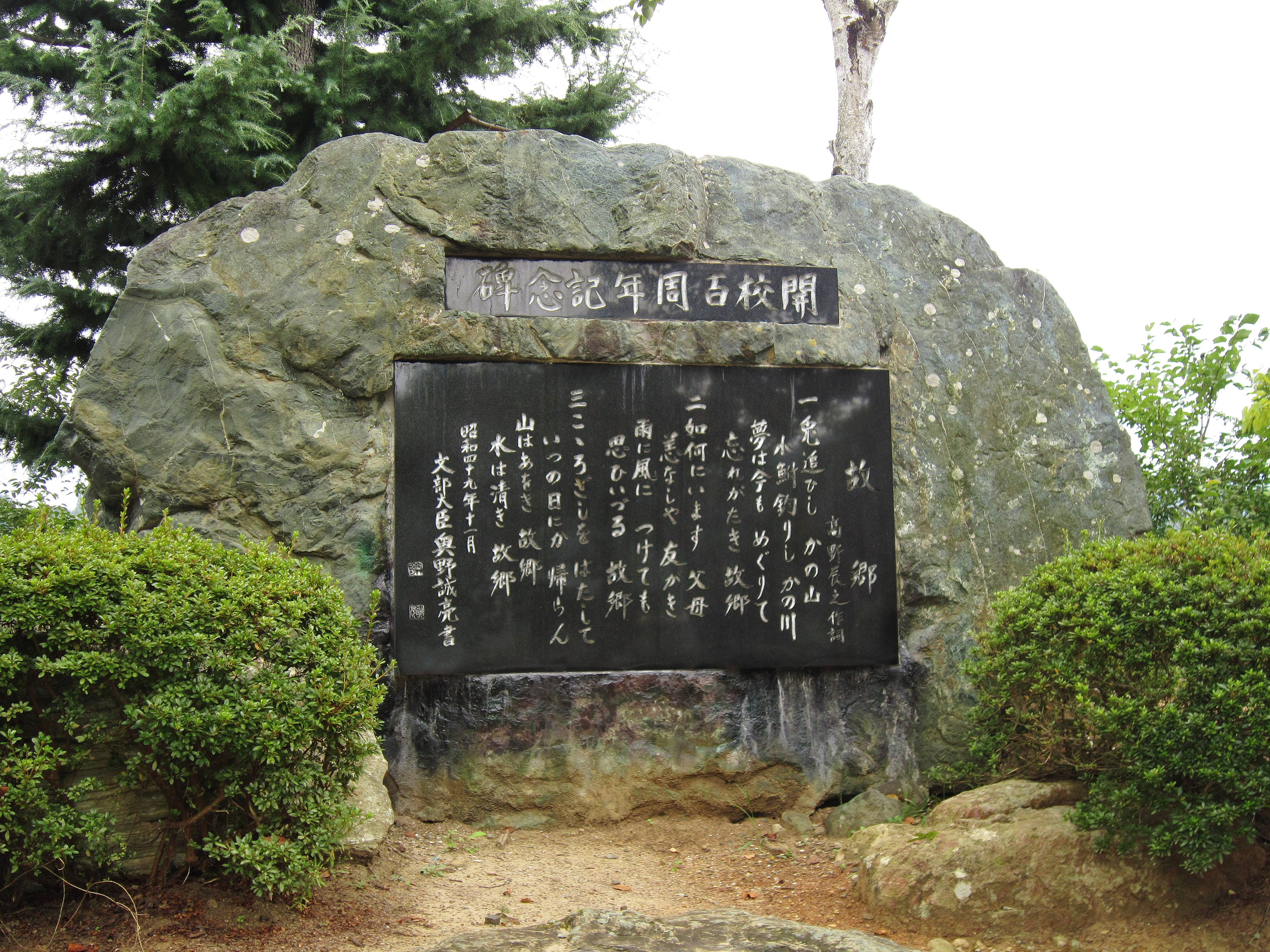 Takano Tatsuyuki Memorial Hall 'Furusato' (children's song) monument.